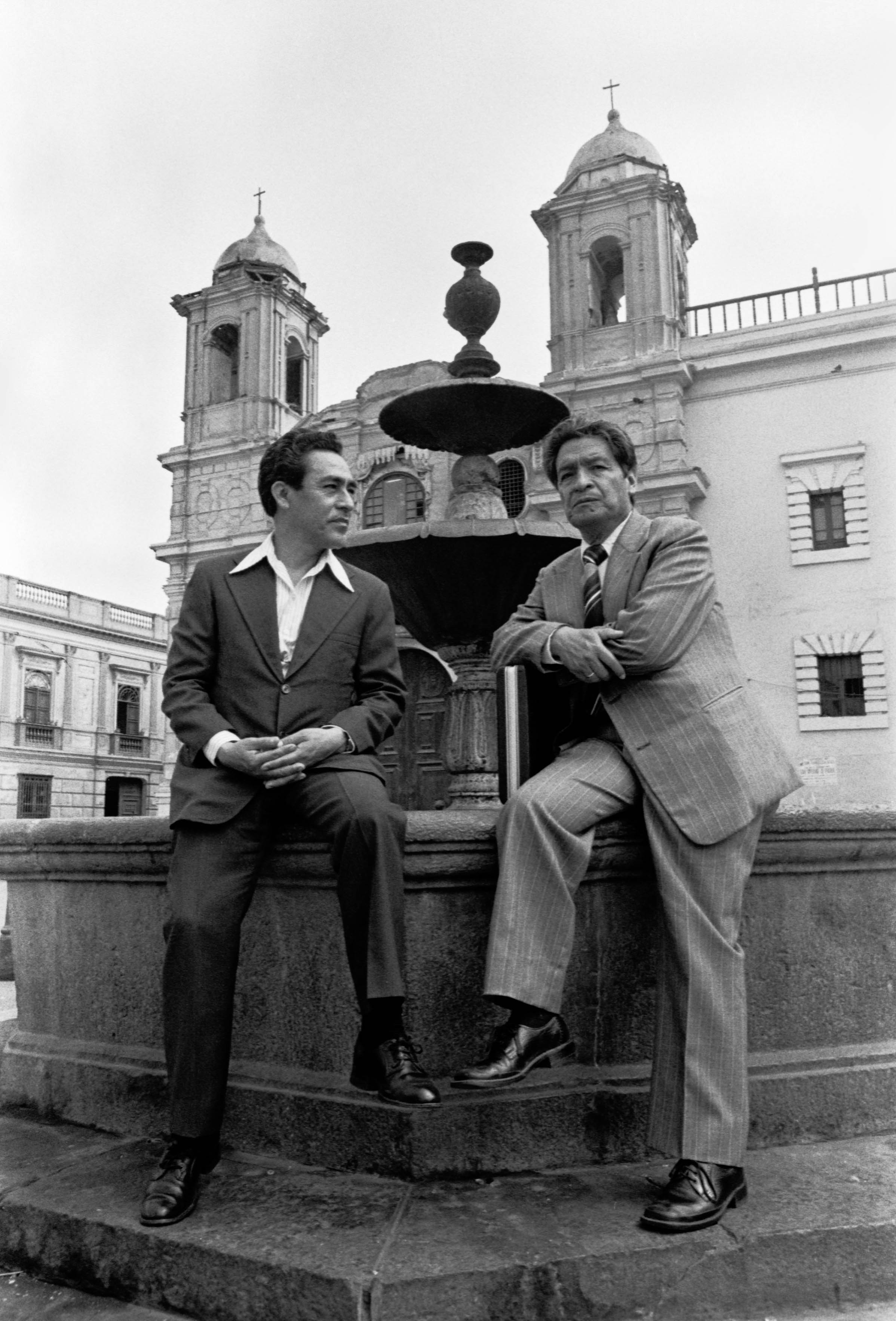 El escritor Eleodoro Vargas Vicuña junto al pintor indigenista Andrés Zevallos.